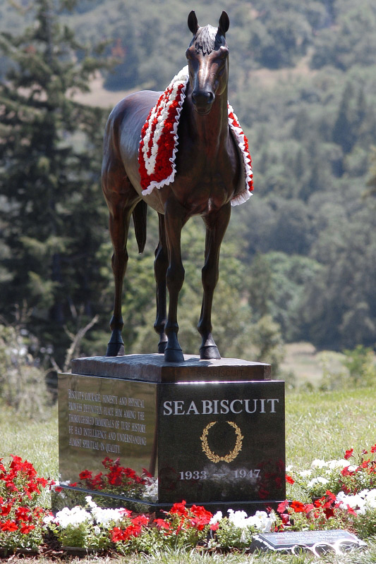 Seabiscuit statue